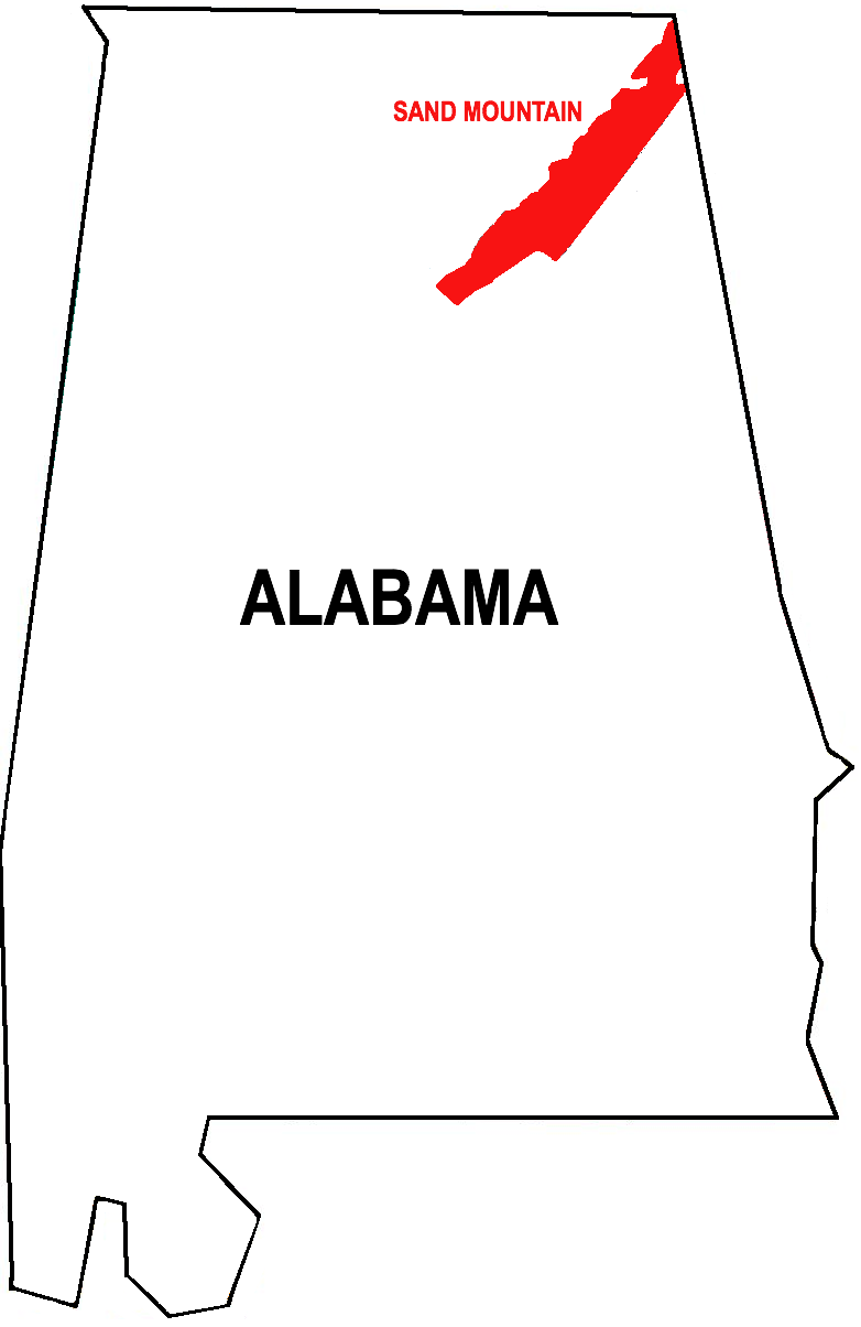 Map of Alabama, highlighting Sand Mountain in red.